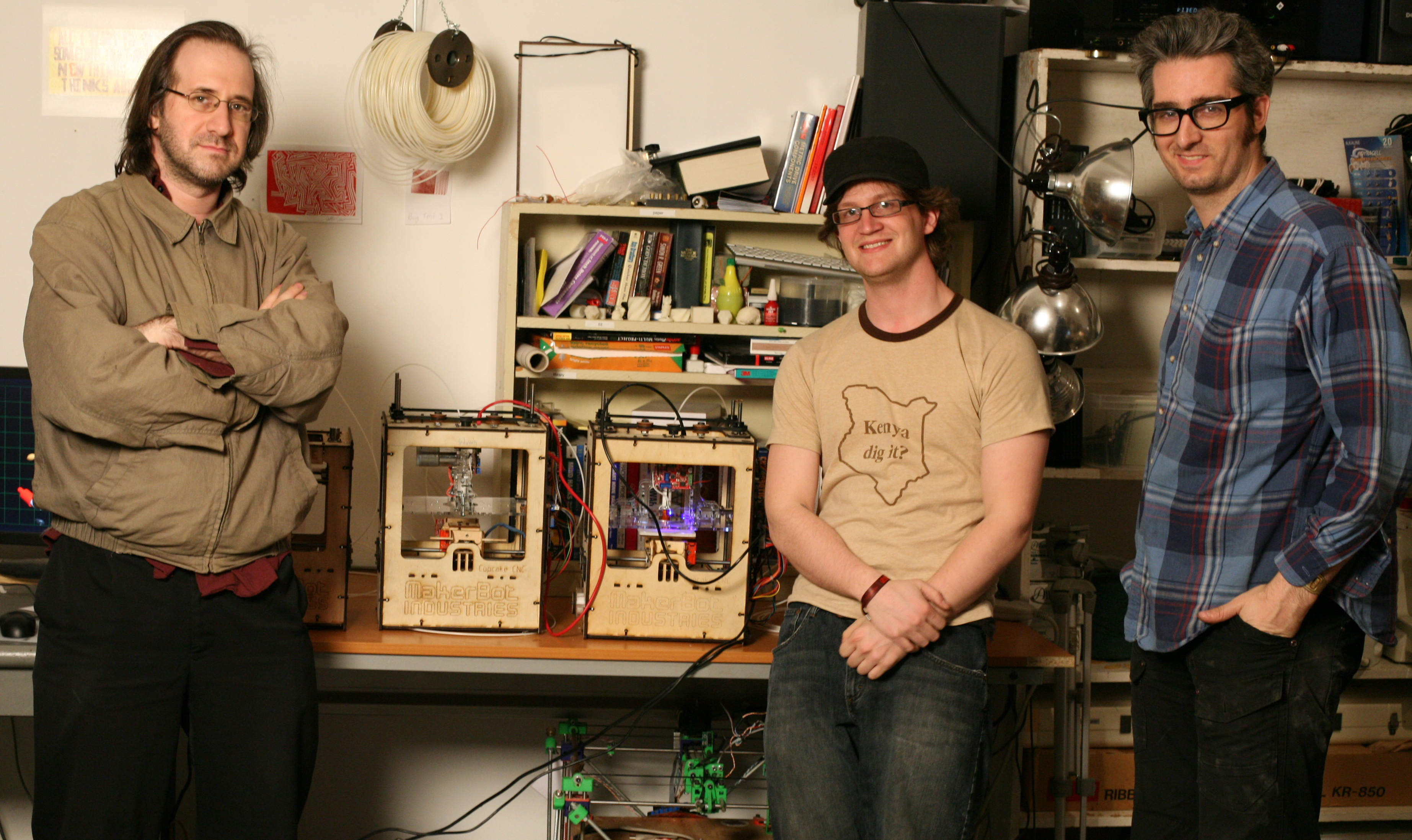 First of all, if you want to learn more about our robot, go check out . It's a robot that you can make yourself to make anything you can imagine, from toys to gears to... well, anything! We finished our final prototype last night at around 3AM and took this picture. We've been working around the clock getting this robot up and running. We got our first prototype up and running about a month ago and we've spent the last month making improvements to get it to the point where it is now where it's really working fantastic and all the notches and holes are in the best places. It feels really good to be at a place where we've got our prototype done and now and I suppose I'm going to have to stop calling it a prototype now that it's the official production machine. Besides final tweaks we've been spending a lot of time ordering things. There are a ton of parts that have to be ordered from all over and we bring them together. This has been a great experience for me since I usually am making one-off projects and having to work within the boundaries of using materials that we can source 1000's of is a really interesting limitation for a maker like me. I thrive on constraints, so it's been fun to have the constraint that I can only use parts that I can make sure thousands of people can access! We're in documentation and preproduction mode now and I'm going to be running the lasercutter a lot to get all the pre-orders filled and shipped in 10 days. Stay tuned! -Bre Pettis